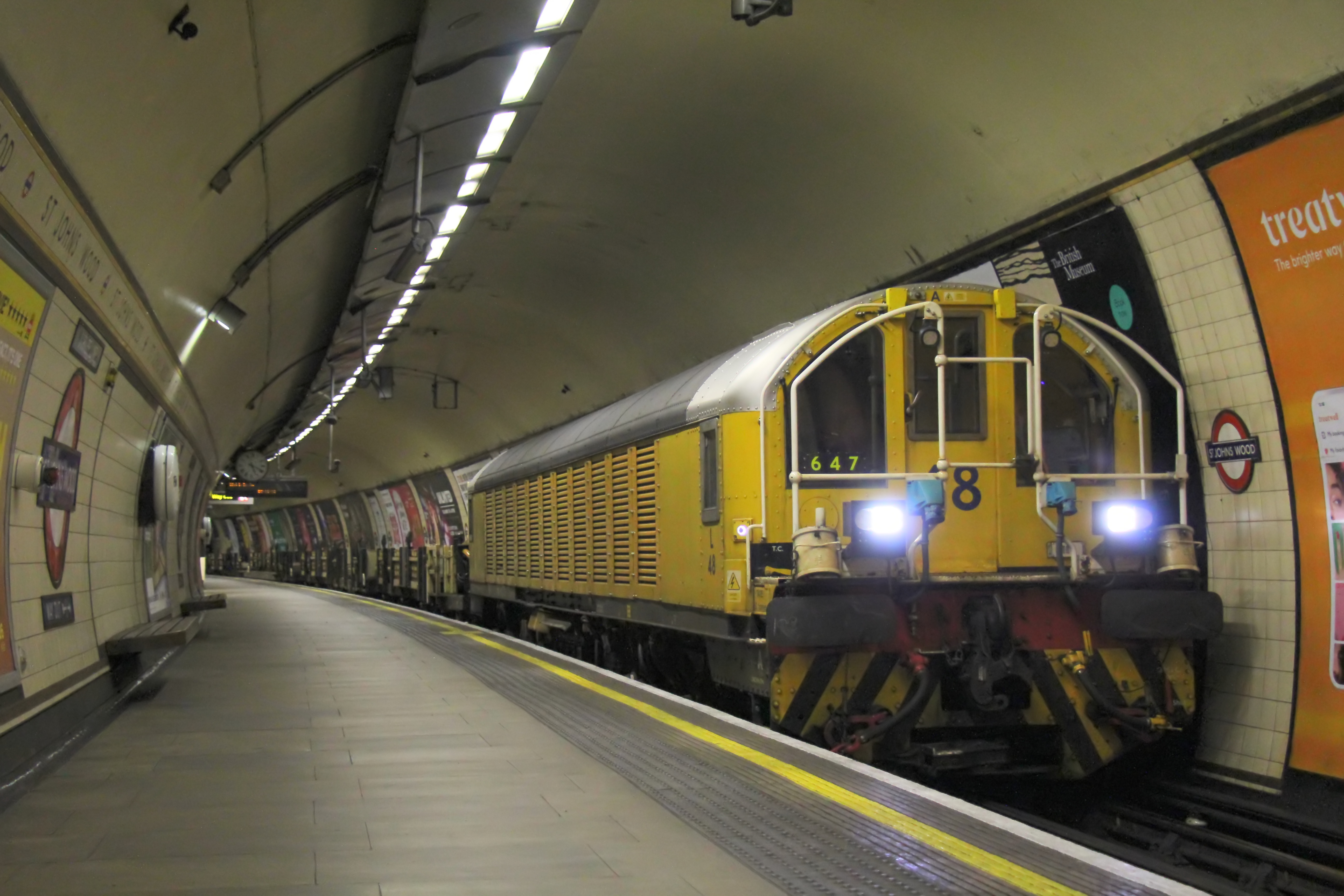 L48 takes an engineering train from the Bakerloo Line through St John's Wood.